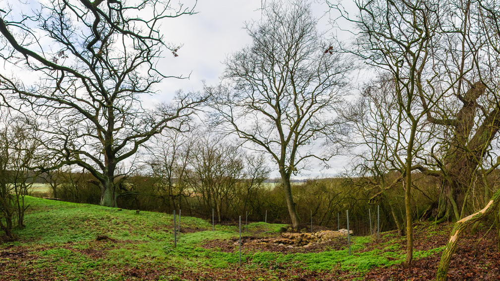 Old castle "Mundzoige" near Parchen with remnants of the wall and centuries old trees